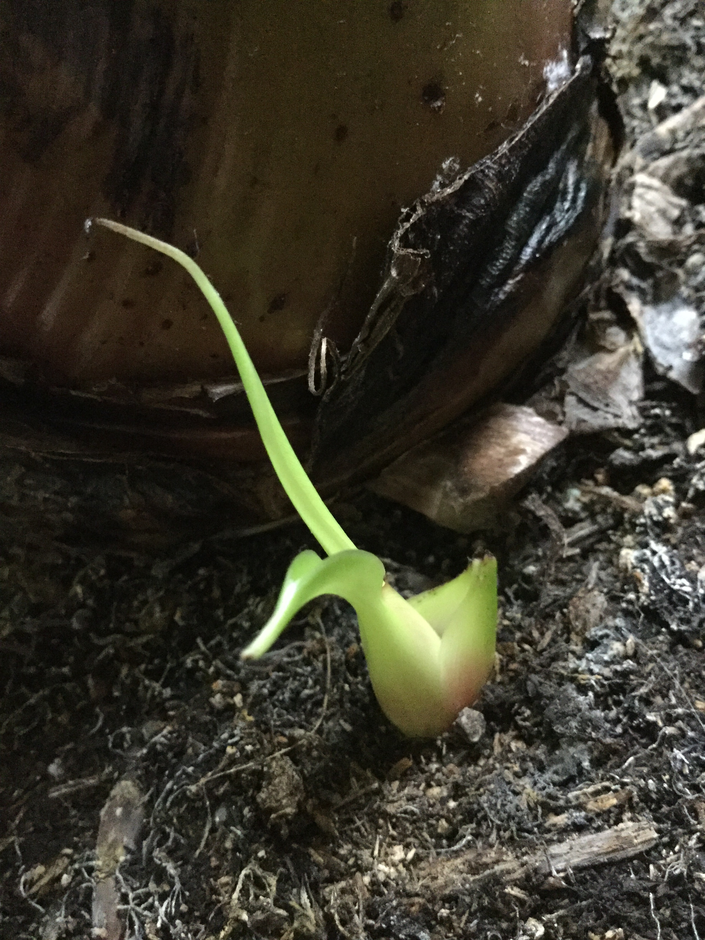 This a Dwarf Cavendish "Sword Sucker"